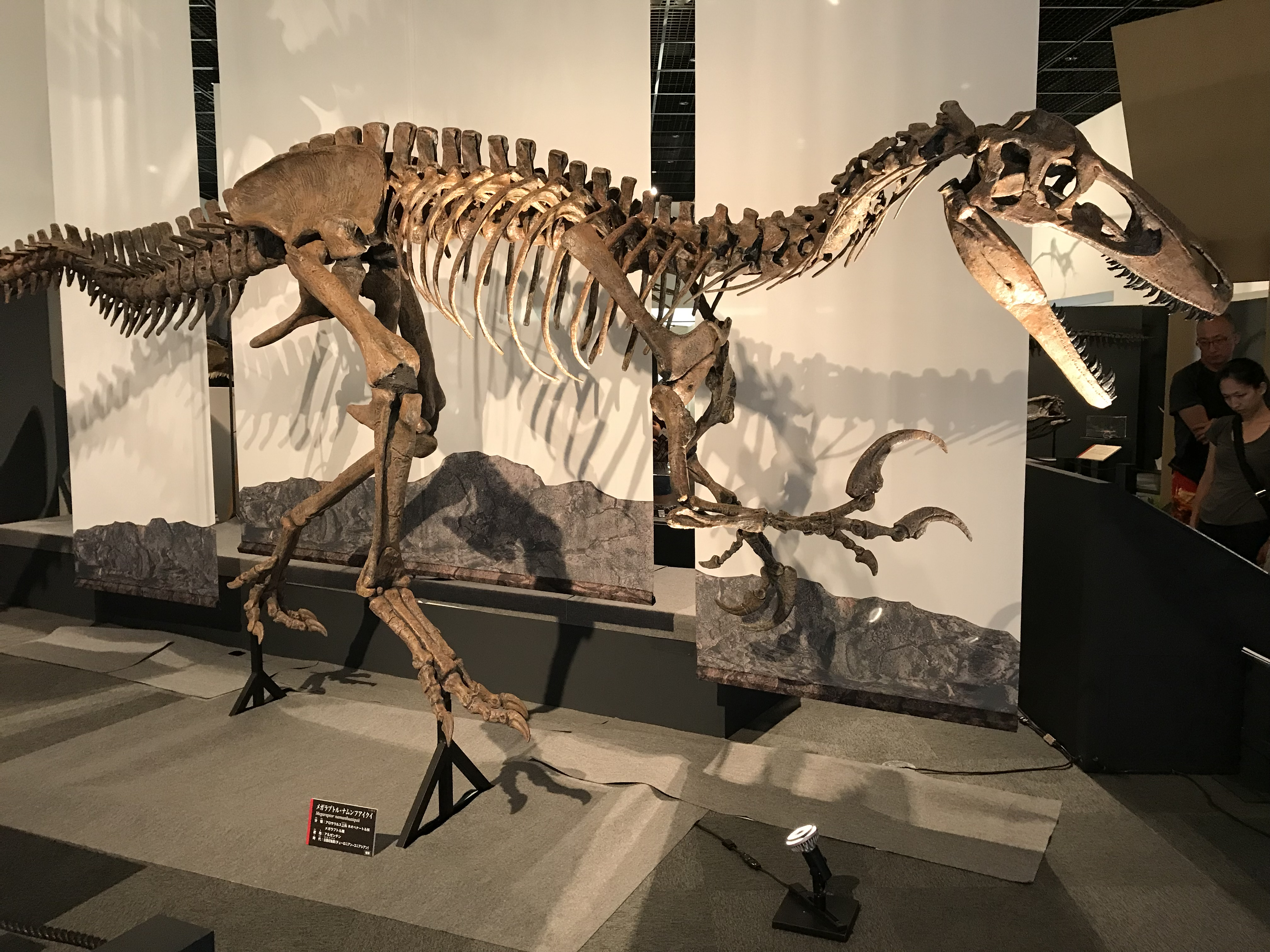 Megaraptor skeleton.